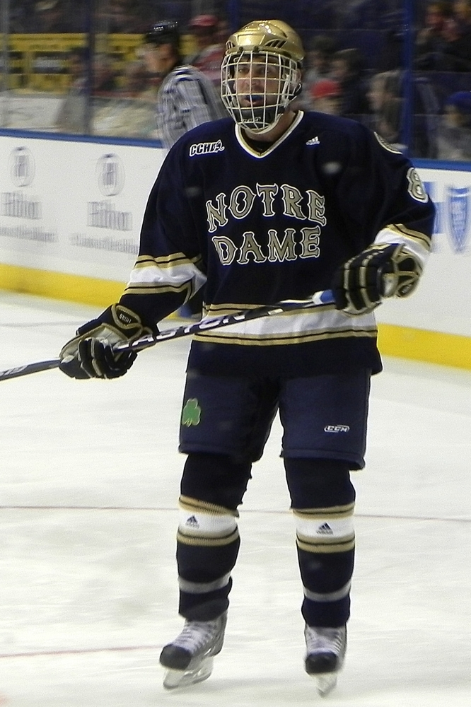 Notre Dame men's ice hockey player wearing an away uniform during a game against Holy Cross on October 8, 2010 at the 2010 Warrior Hockey Icebreaker Tournament.